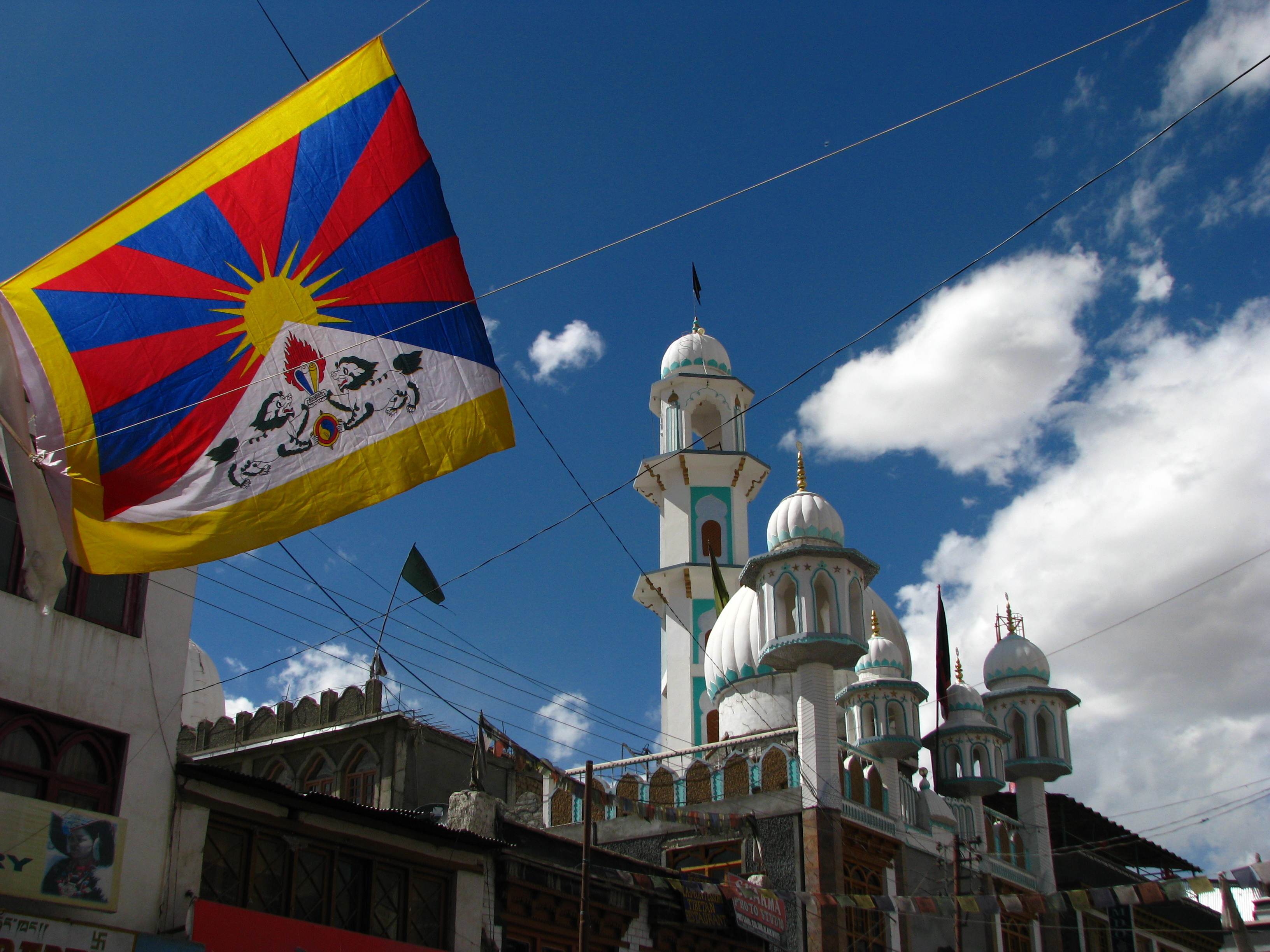 Making an interesting contrast, a very lovely Masjid backdrops the flag of (exiled) Tibet along the Main Bazaar road in Leh.